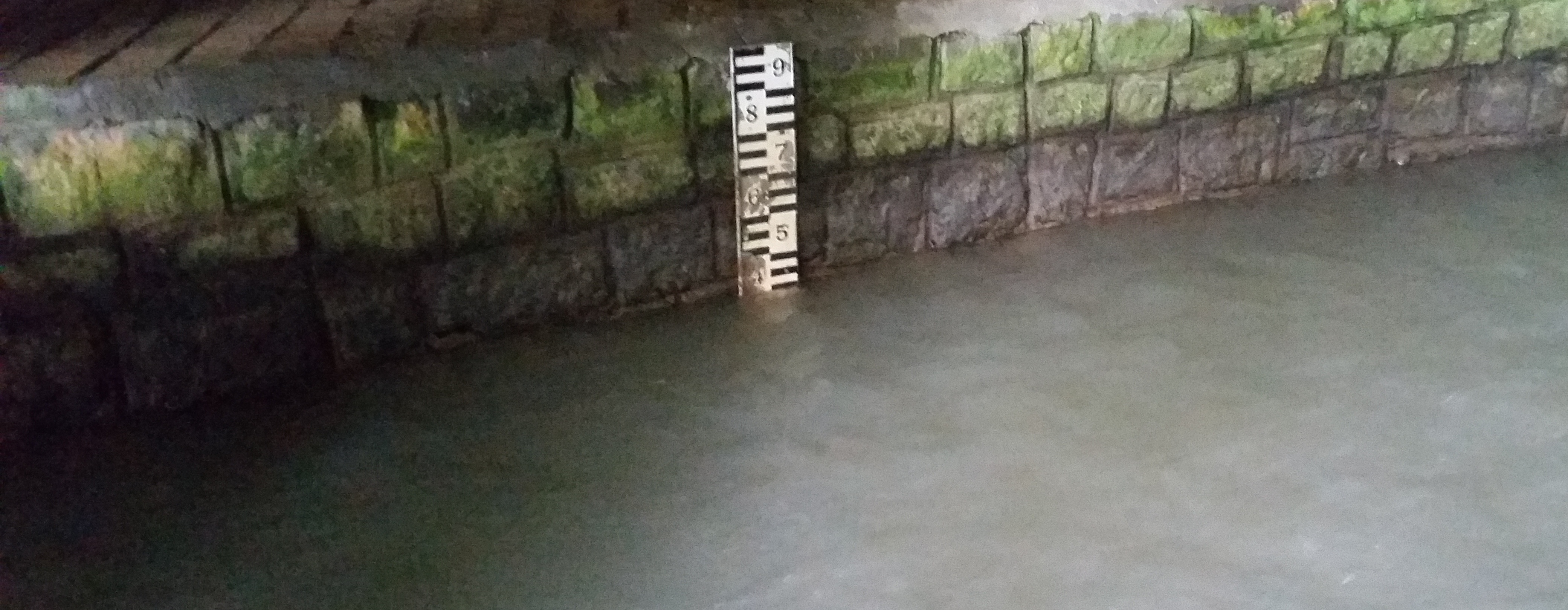 Water meter in Petnica cave